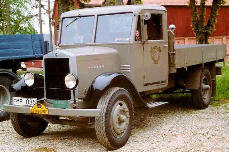 Scania-Vabis 32517 Truck 1933